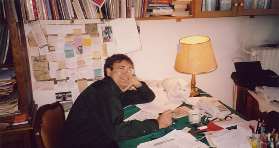 Orhan Pamuk, turkish novelist. The photo is declared copyright-free on Pamuk's official website, as seen at the above link.